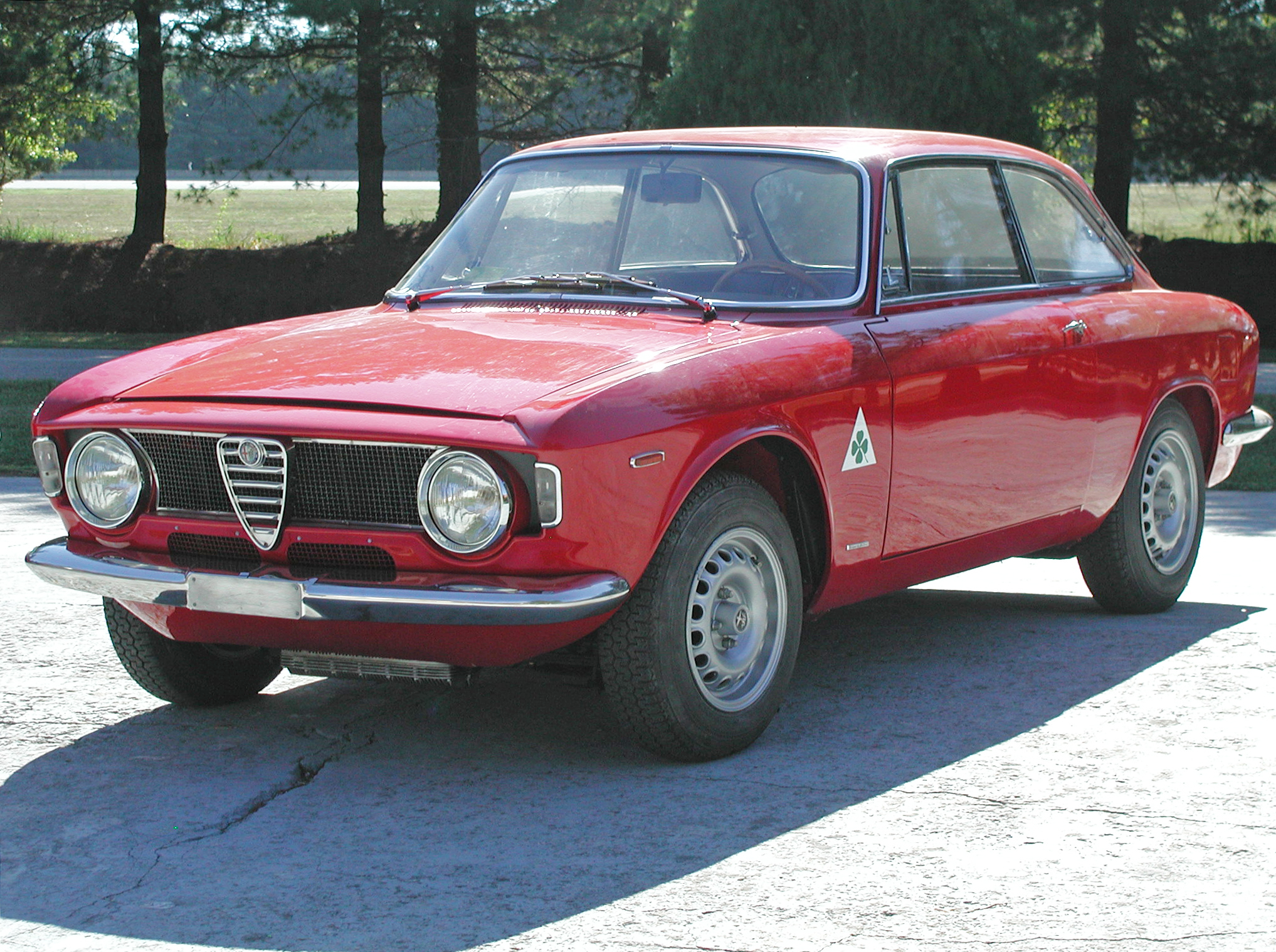 Alfa Romeo Giulia GTA on the company's test ground in Balocco.